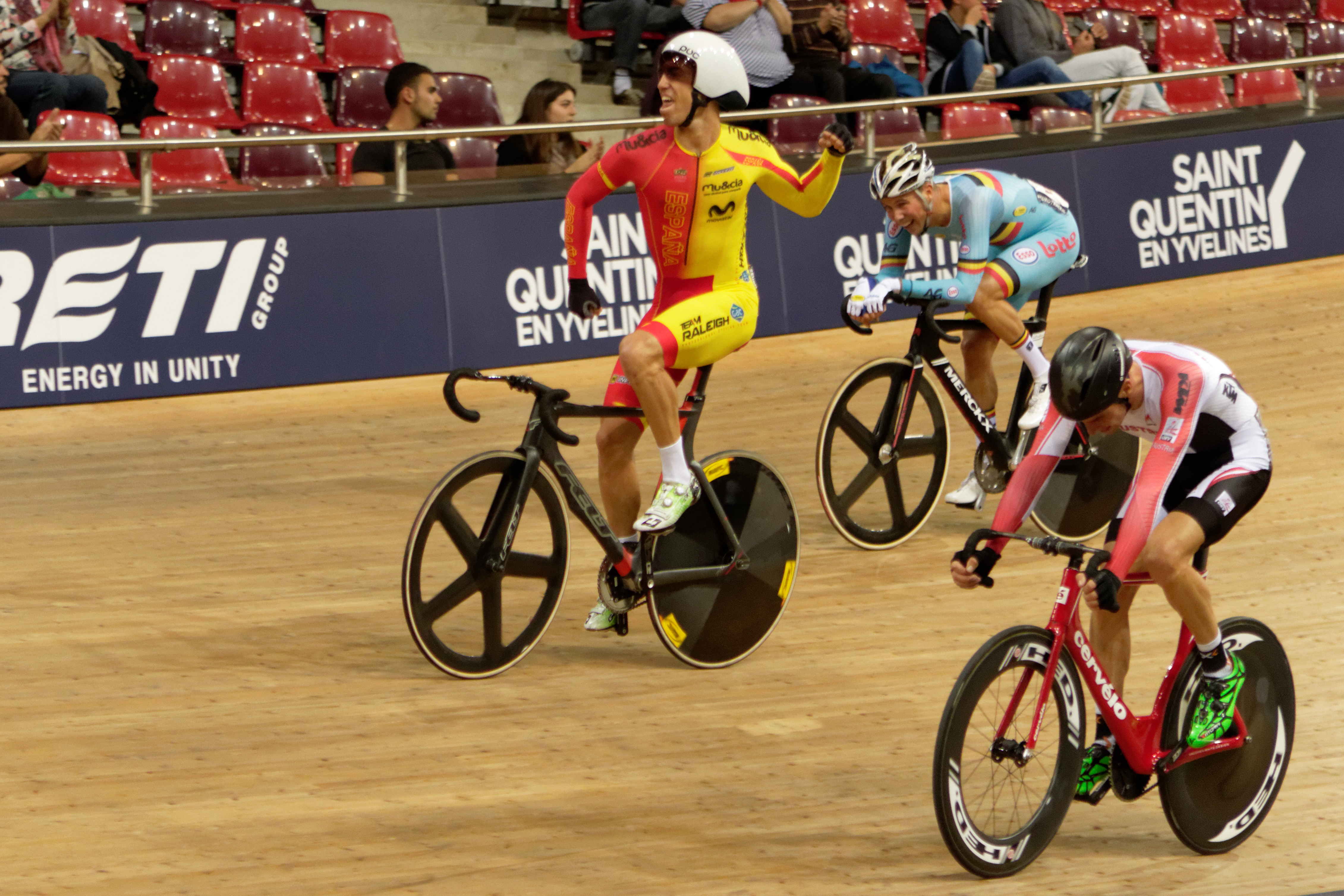 2016 UEC European Track Championships - Albert Torres from Spain (front), Moreno De Pauw from Belgium, Andreas Graf from Austria